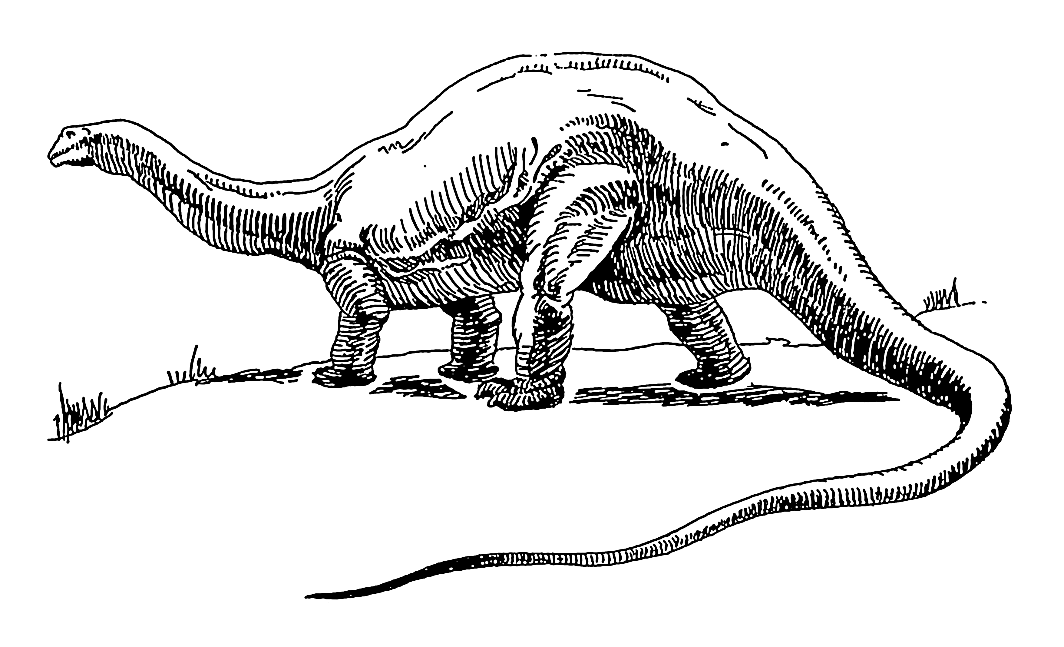 Line art drawing of a brontosaurus.